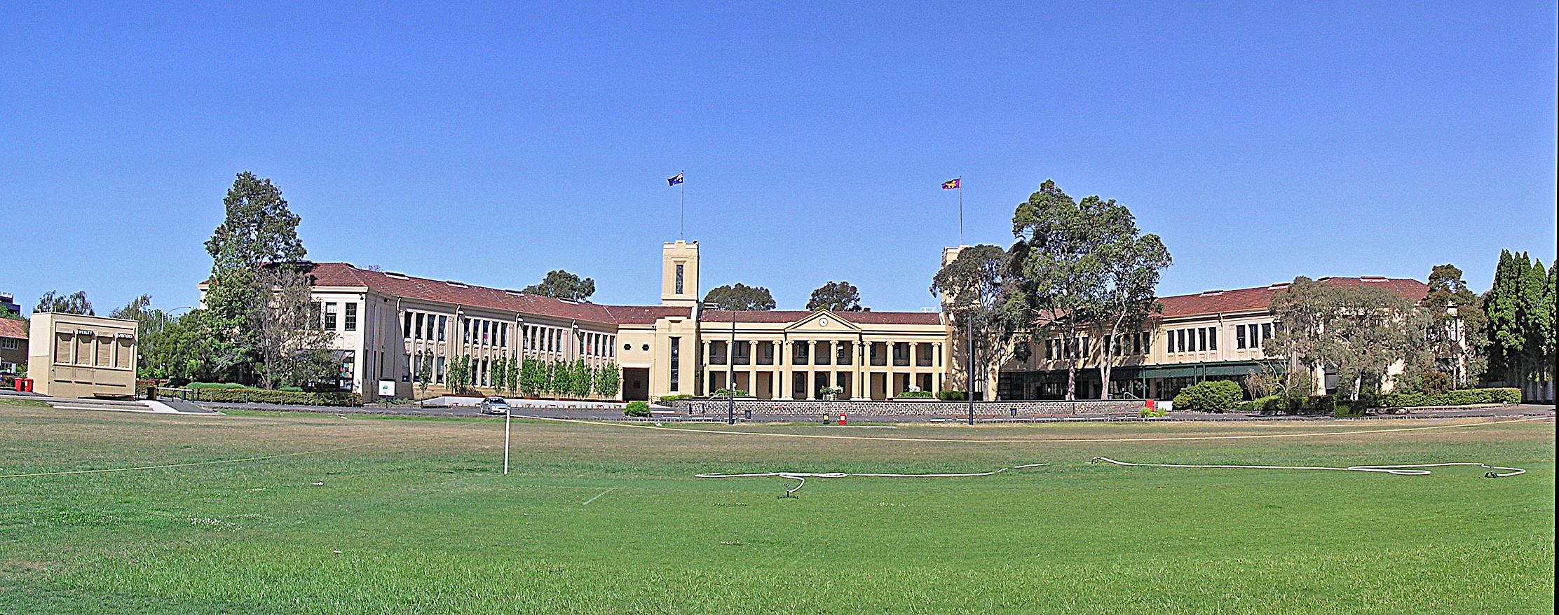 Wesley College in St. Kilda Road (Established in 1866), Melbourne